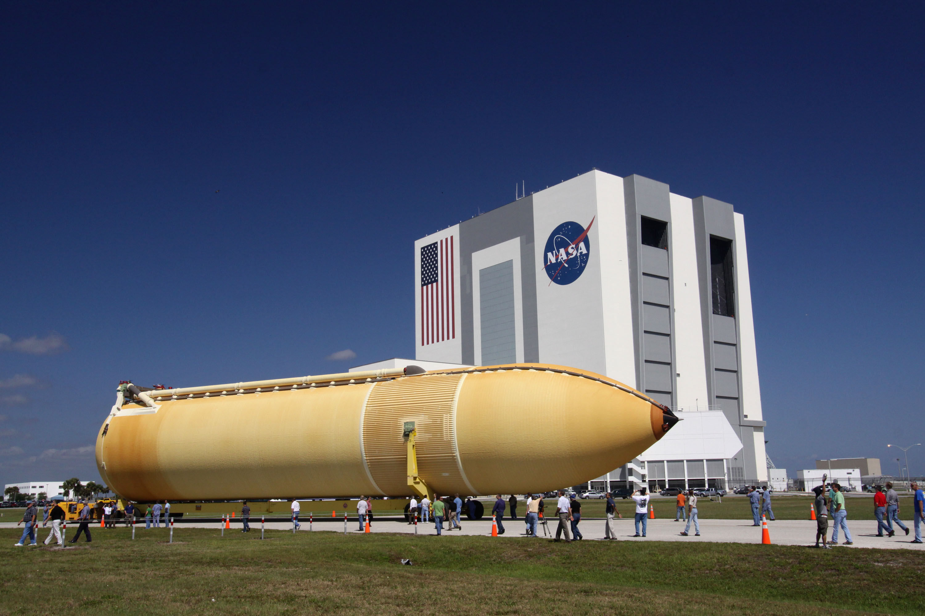 CAPE CANAVERAL, Fla. - At NASA's Kennedy Space Center in Florida, the external fuel tank for space shuttle Discovery's STS-133 mission is transported from the Launch Complex 39 turn basin to the Vehicle Assembly Building across the street. On the STS-133 mission, Discovery will deliver NASA's Permanent Multi-purpose Module, or PMM, the Express Logistics Carrier 4, and critical spare parts to the International Space Station. Launch is targeted for fall 2010.